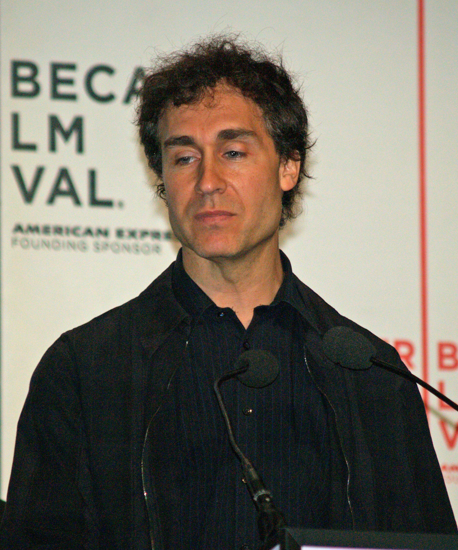 Doug Liman at the opening of the 2008 Tribeca Film Festival.